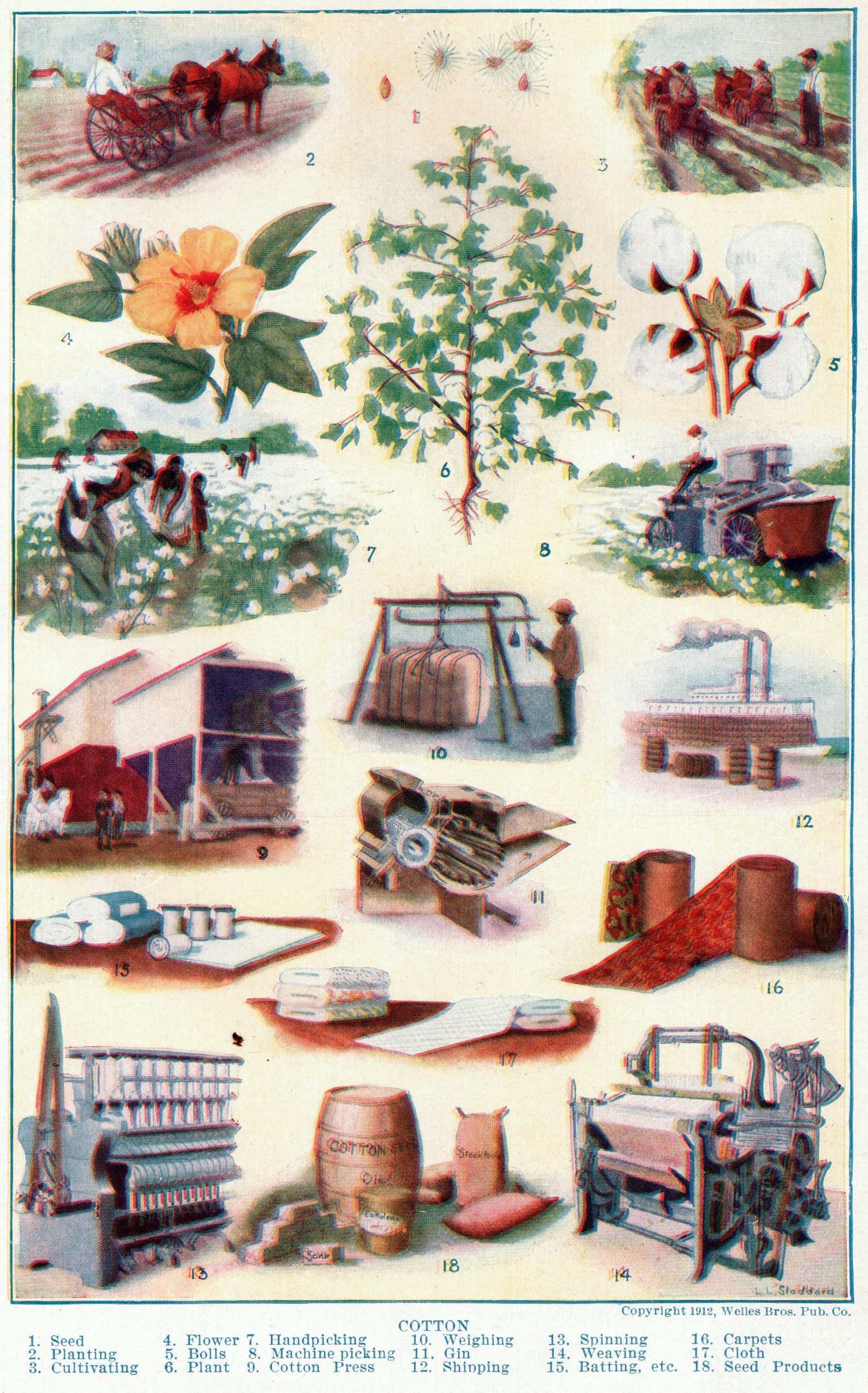 This illustration is from "The Home and School Reference Work, Volume II" by The Home and School Education Society, H. M. Dixon, President and Managing Editor. The book was published in 1917 by The Home and School Education Society. Flickr data on 2011-08-23: Tags: 1917, book, The Home and School Reference Work, copyright free, creative commons, flickr, free, freebie License: CC BY 2.0 User: perpetualplum Sue Clark